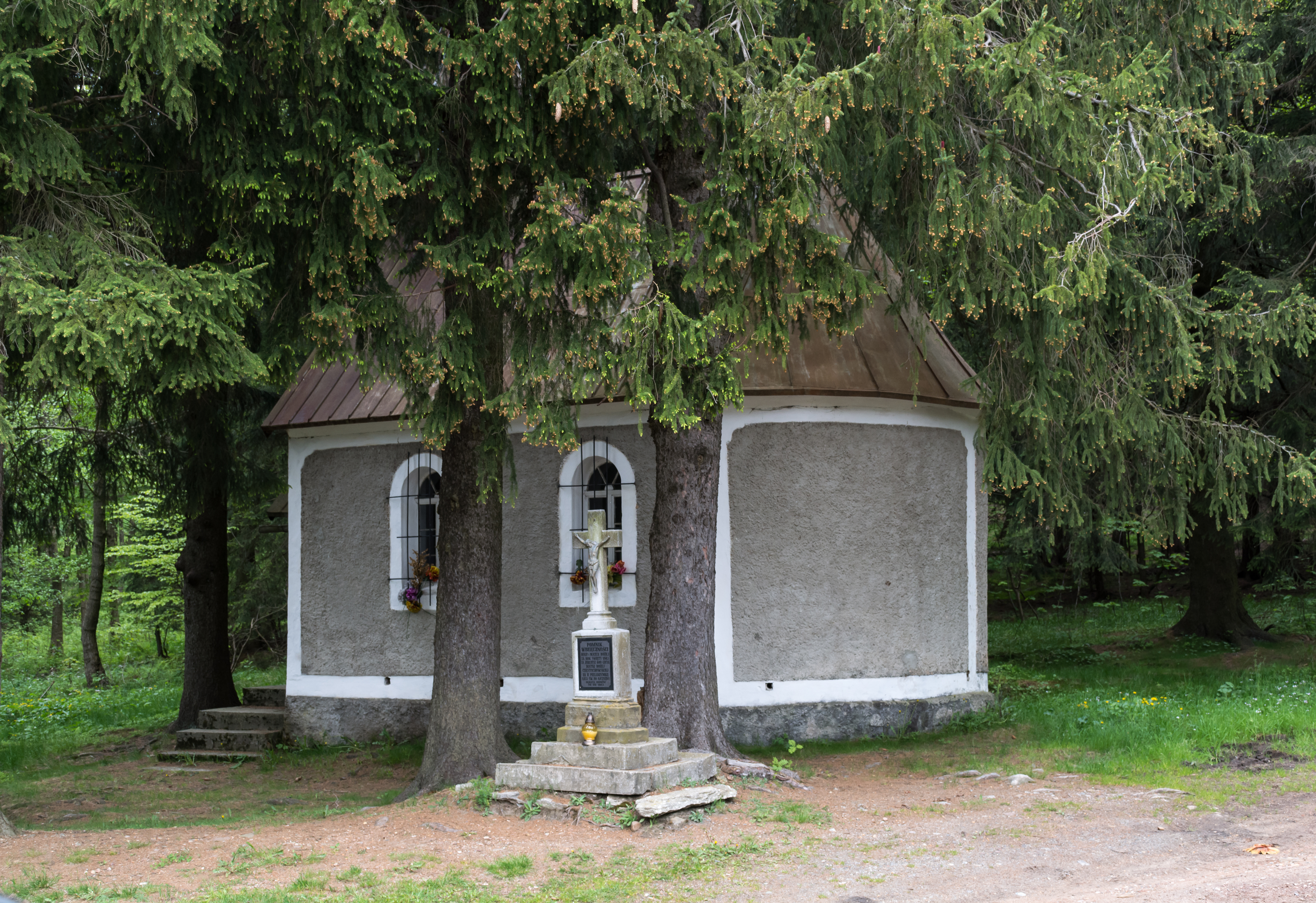 The chapel in Biała Woda